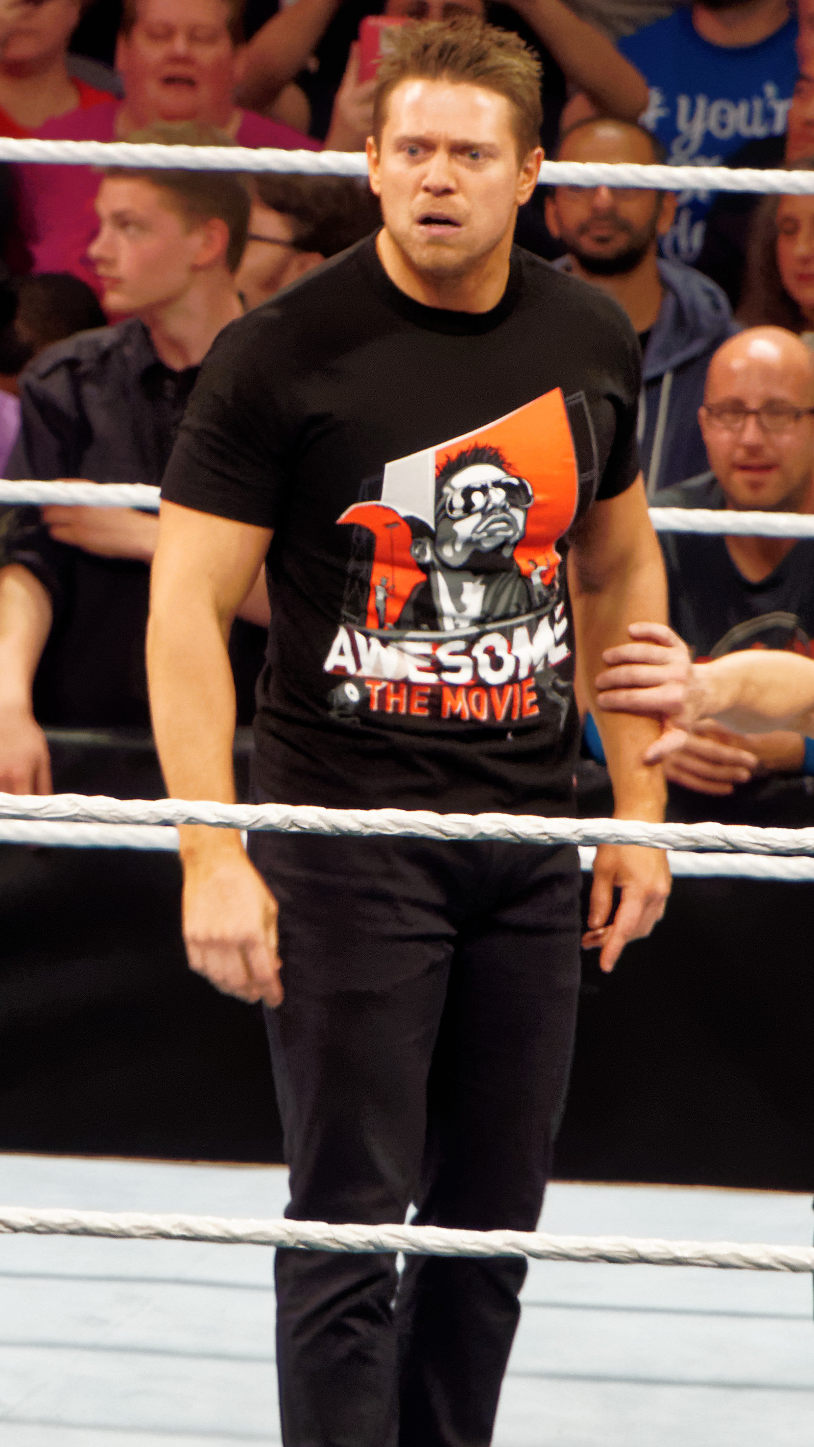 The Miz in the ring during a WWE Raw television taping on March 30, 2015.